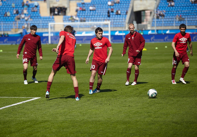 Footbal club Rubin Kazan